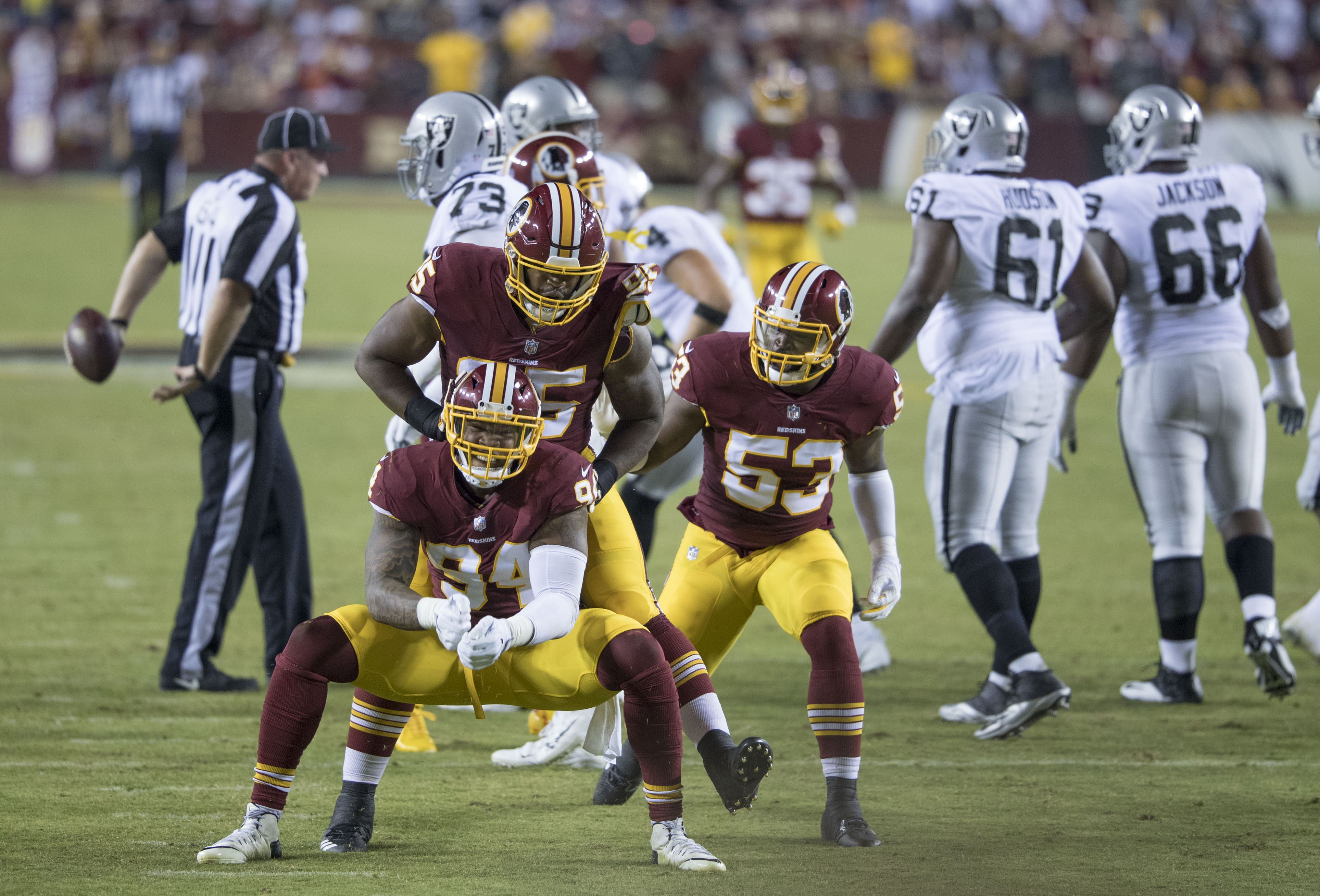 Raiders at Redskins 9/24/17